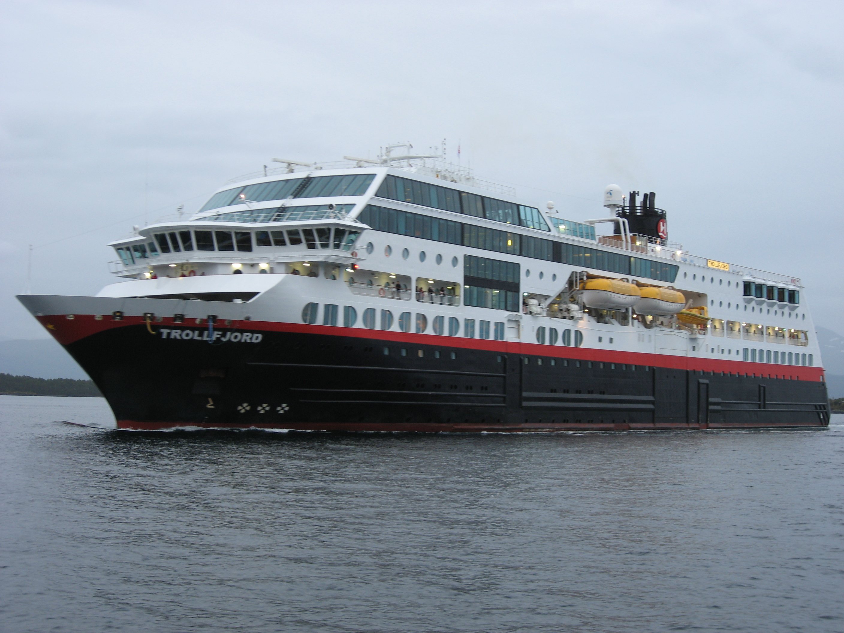 Norwegian coastal steamer (Hurtigruten) MS Trollfjord in Molde.